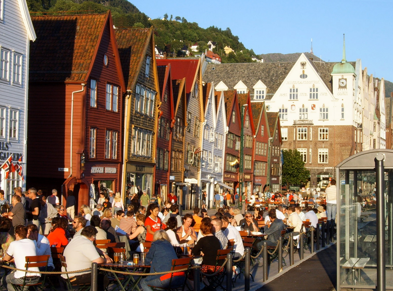 Bryggen, the hanseatic city of Bergen, Norway, july 2005